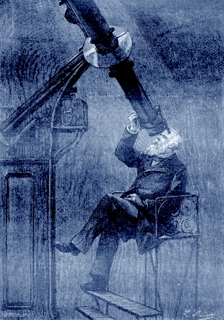 An illustration from Jules Verne's novel "Propeller Island" (also published as "The Floating Island, or The Pearl of the Pacific", 1895) drawn by Léon Benett.